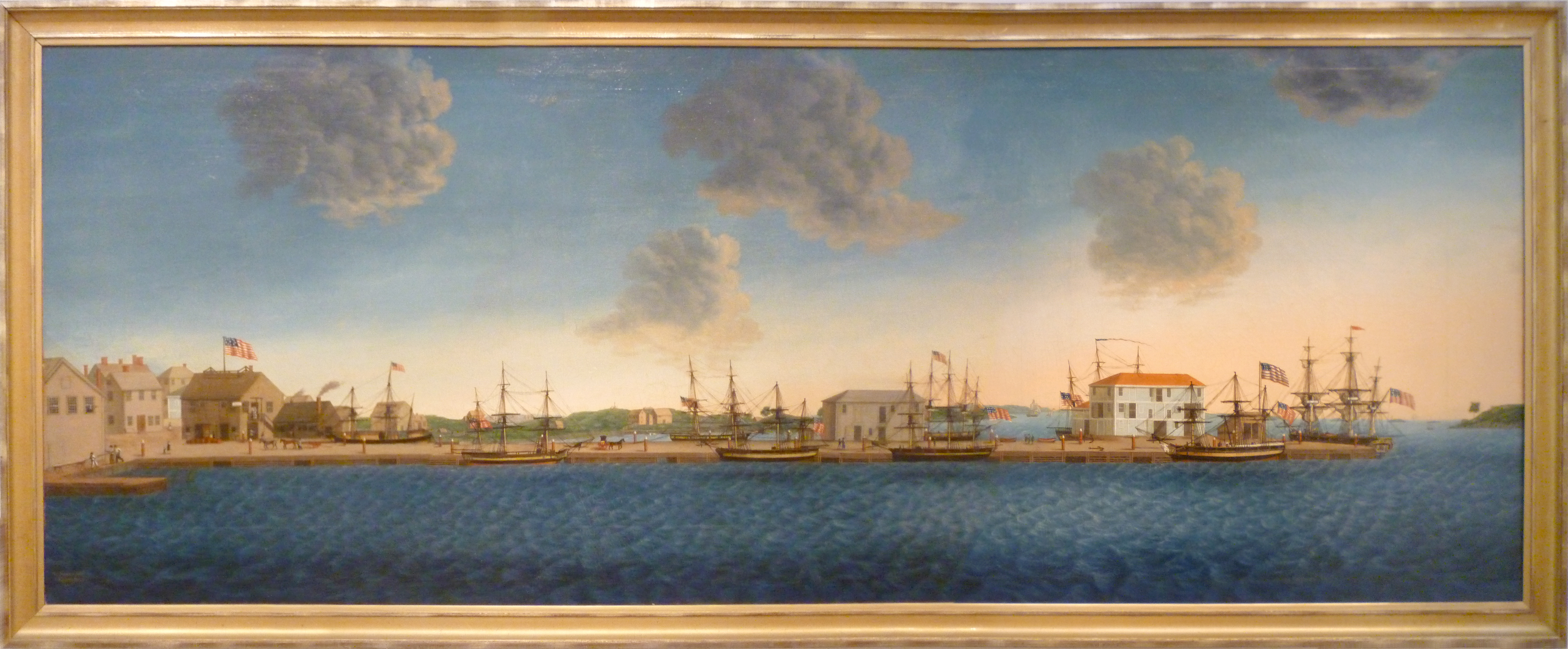 Crowninshield's Wharf. Salem, Massachusetts, USA. Oil on canvas.